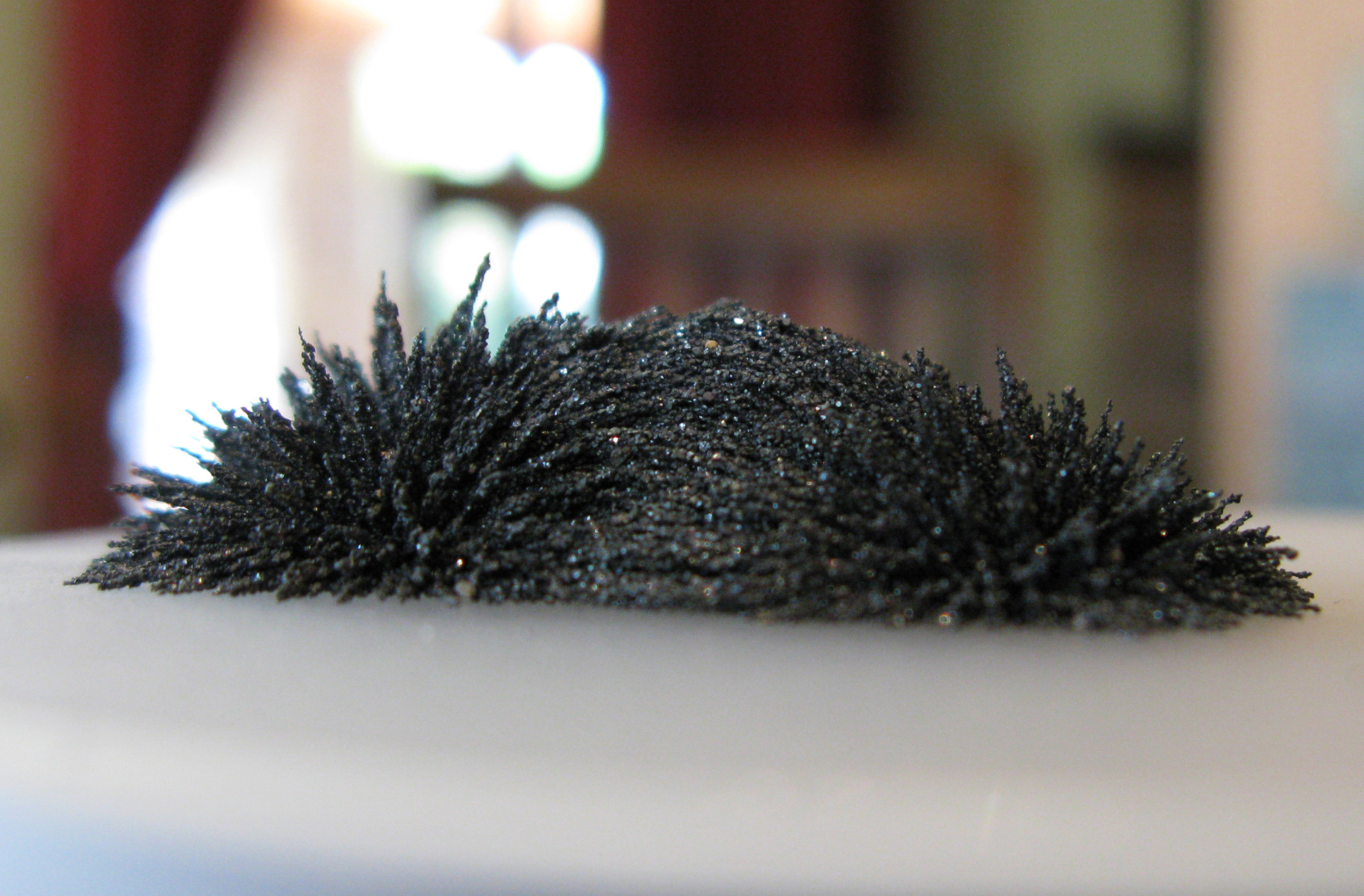 Iron sand from Four Peaks mountain near Phoenix, Arizona, attracted to a magnet.